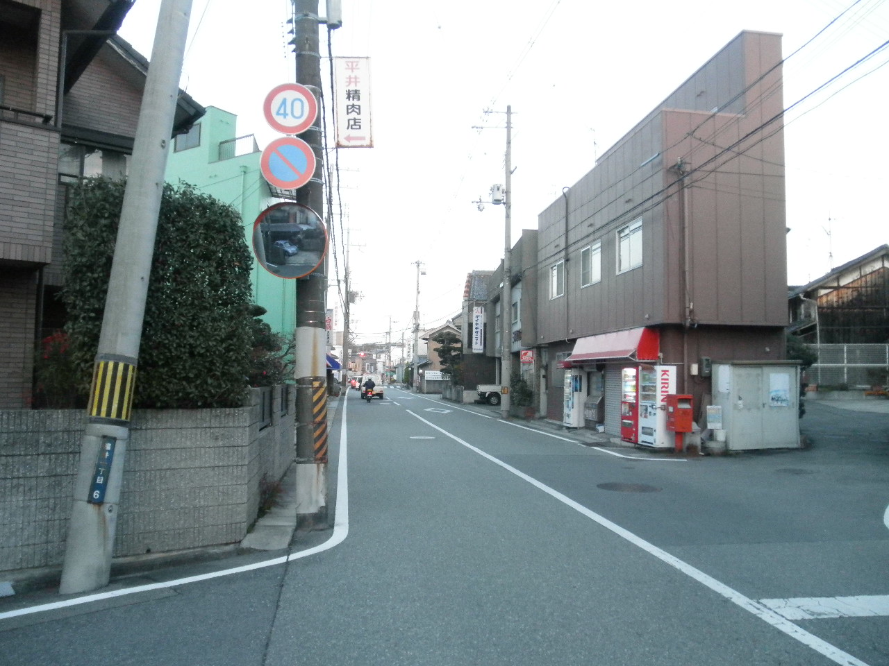 Fukui1 Mikicity Hyogopref